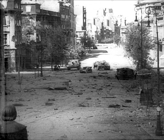 Warsaw Uprising: Frame from a newsreel showing two tanks and a Goliath (SdKfz 301 - Borgward B IV) on Krakowskie Przedmieście Street approaching Staszic Palace. in bottom left corner head of Copernicus Monument.